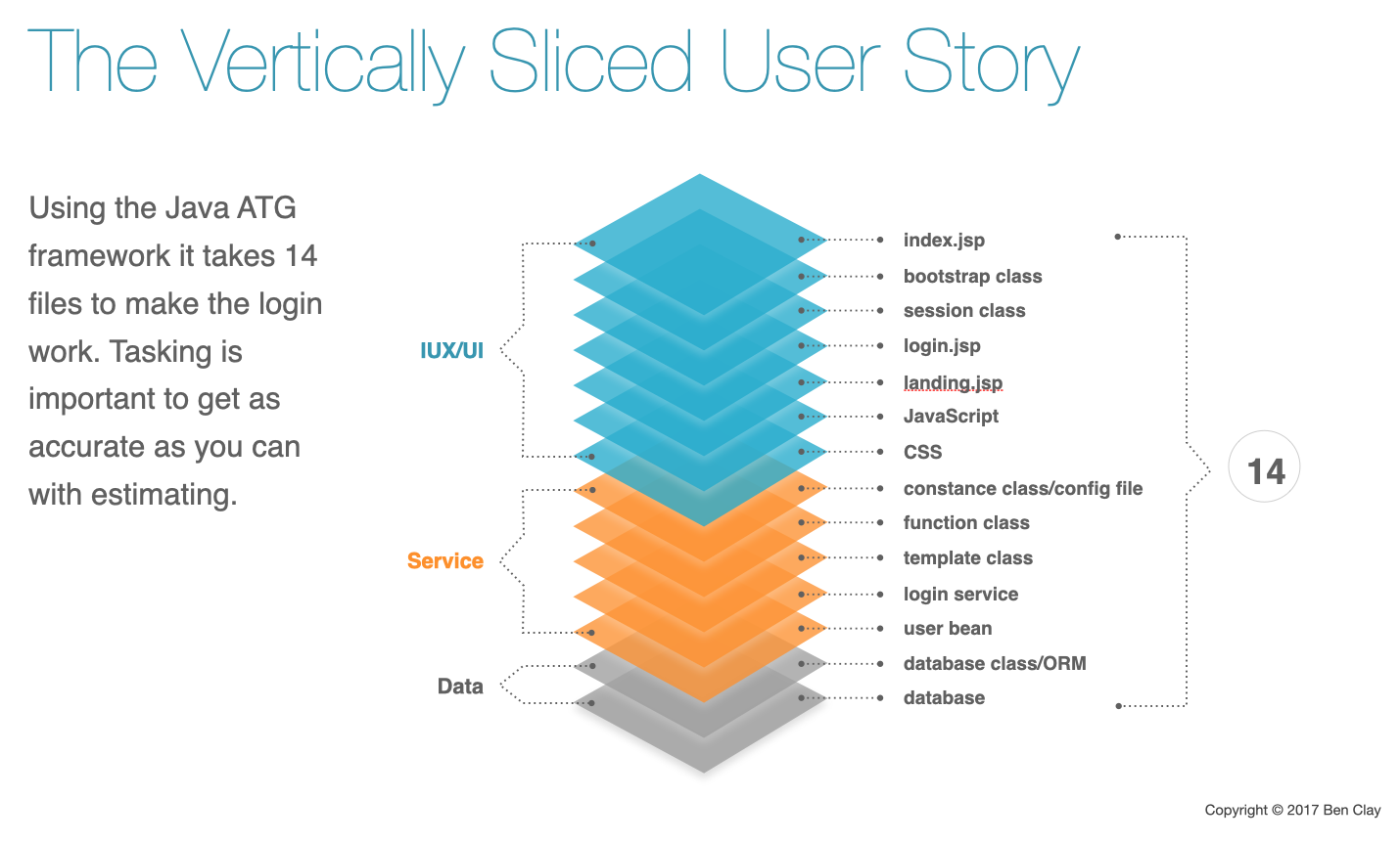 Using the Java ATG framework it takes 14 files to make the login work. Tasking is important to get as accurate as you can with estimating.